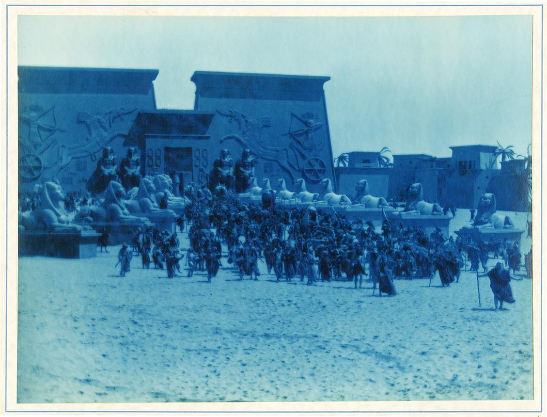 Title: Scene from Cecil B. DeMille's The Ten Commandments Repository: California Historical Society Digital object ID: PC-RM-Curtis_237 Call Number: PC-RM-Curtis Collection: Photographs of the filming of Cecil B. DeMille's The Ten Commandments Photographer: Curtis, Edward S. Date: 1923 Physical description: Photographic print on printed mounts: silver gelatin, blue-tinted; 38 x 50 cm. General notes: Mounts imprinted: The Edward S. Curtis Studio 668 South Rampart, Los Angeles. Contains images of actors playing scenes in, and exterior and interior sets from, Cecil B. DeMille's The Ten Commandments. Most photos show Theodore Roberts as Moses, and several show Charles de Rochefort (Charles de Roche) as Ramses. Includes group scenes in the dunes, near or in the ocean, and on interior sets. Filmed at Guadalupe-Nipomo Dunes in Santa Barbara County, California. Preferred citation: Scene from Cecil B. DeMille's The Ten Commandments, Photographs of the filming of Cecil B. DeMille's The Ten Commandments, PC-RM-Curtis, courtesy, California Historical Society, PC-RM-Curtis_237.